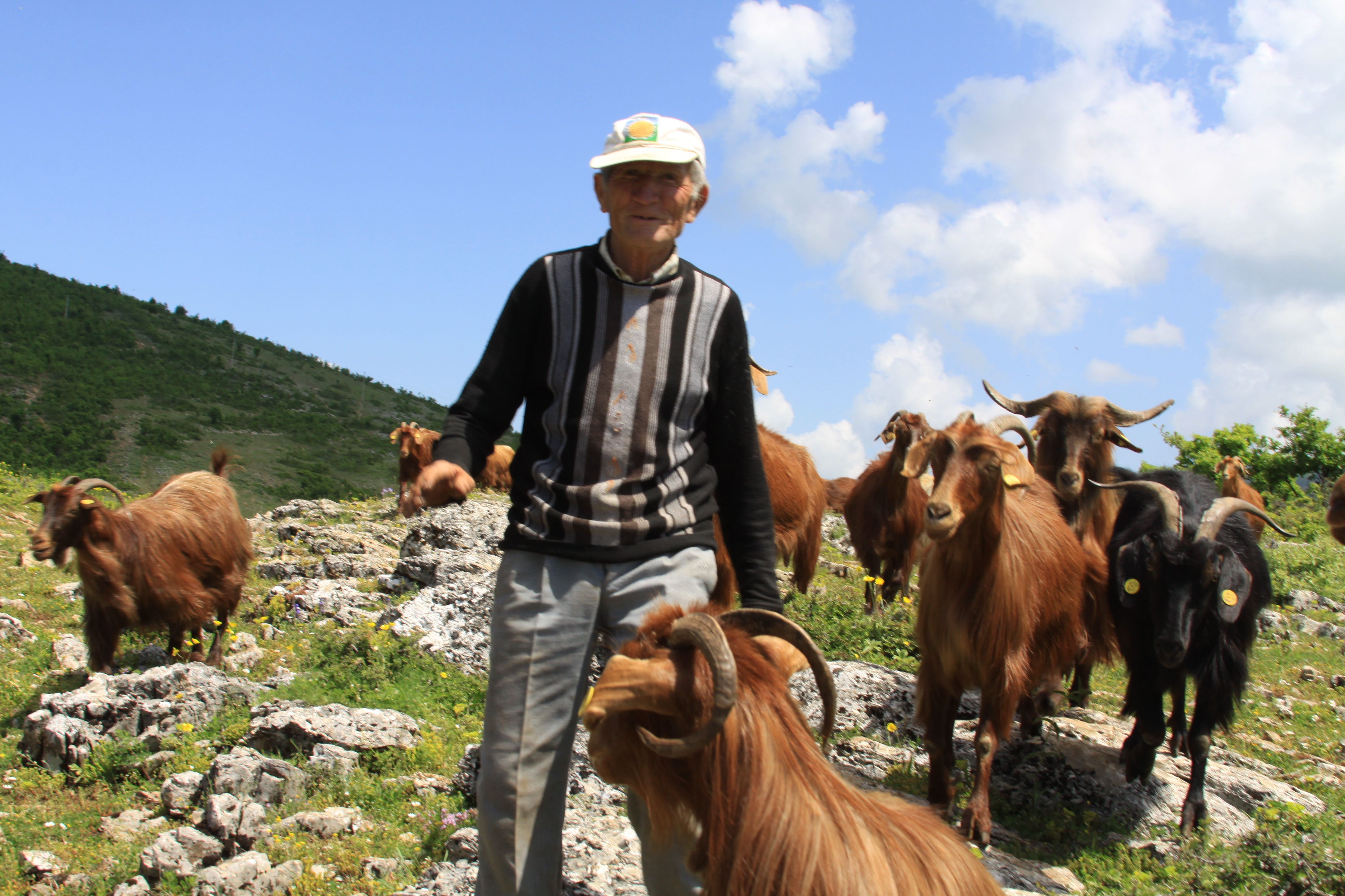 Goats of Has, Kukes , Demiroll Village